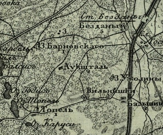 "Shubert's map". Fragment of topographic map of Russian Empire. 3 versta in inch (1260 m in 1 cm).